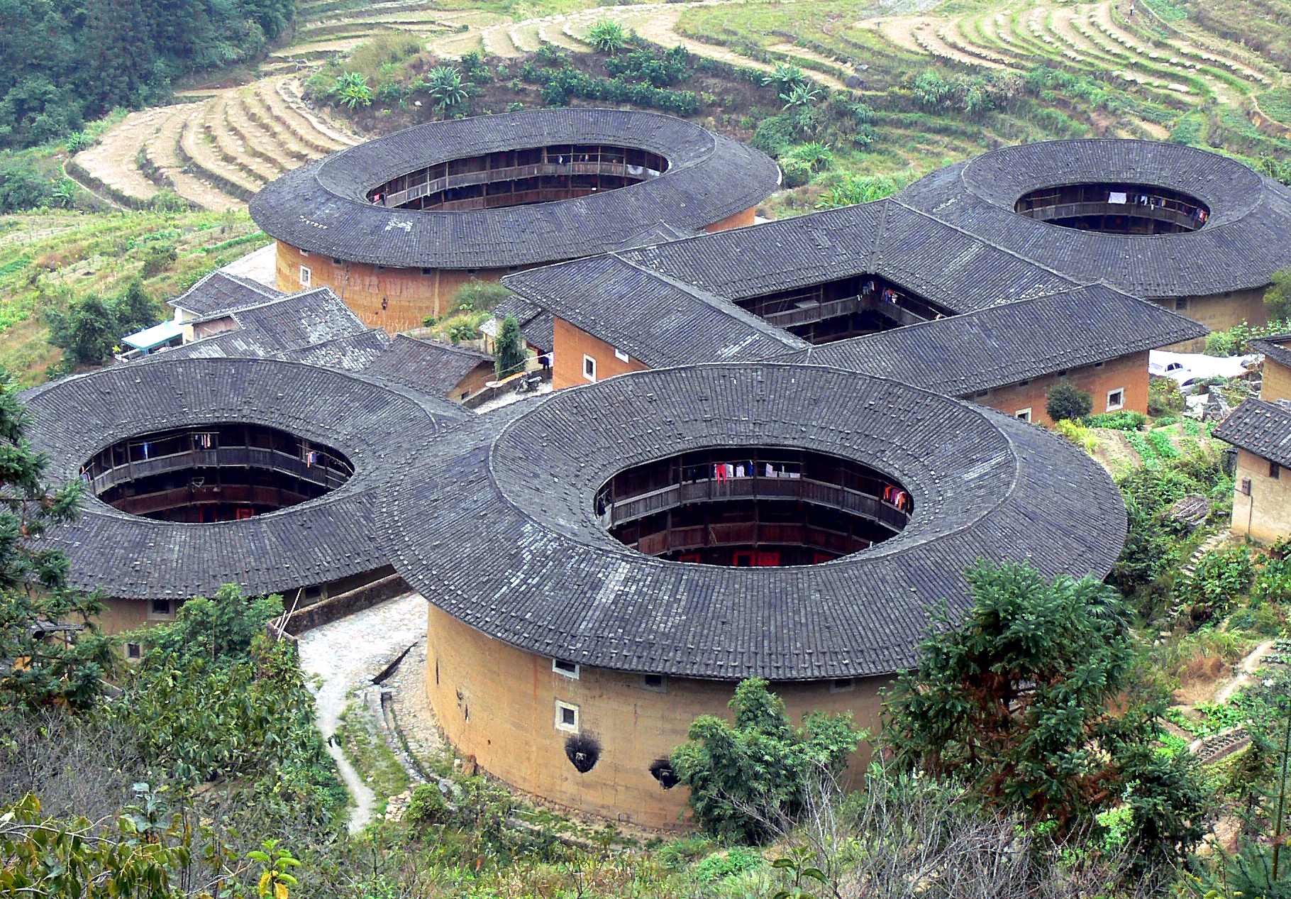 Fujian Tulou (earth buildings) at Tianluokeng (Snail Pit village) in southwestern Fujian province